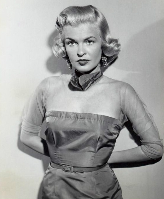 Photo of Peggy Knudsen.